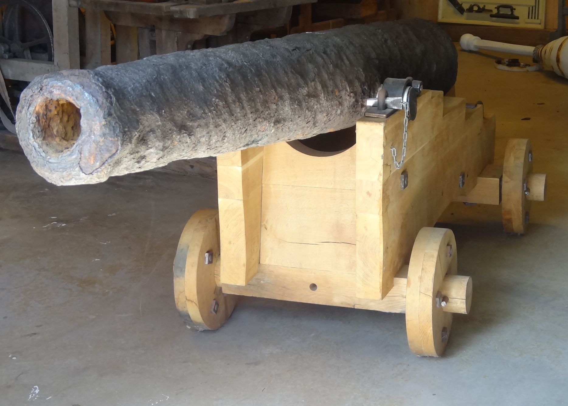 Gun salavaged from the Swedish privateerfrigate Le Comté de Mörner during excavations i Gothenburg harbour, Sweden 1924. On display at Onsala Maritime museum, Sweden.